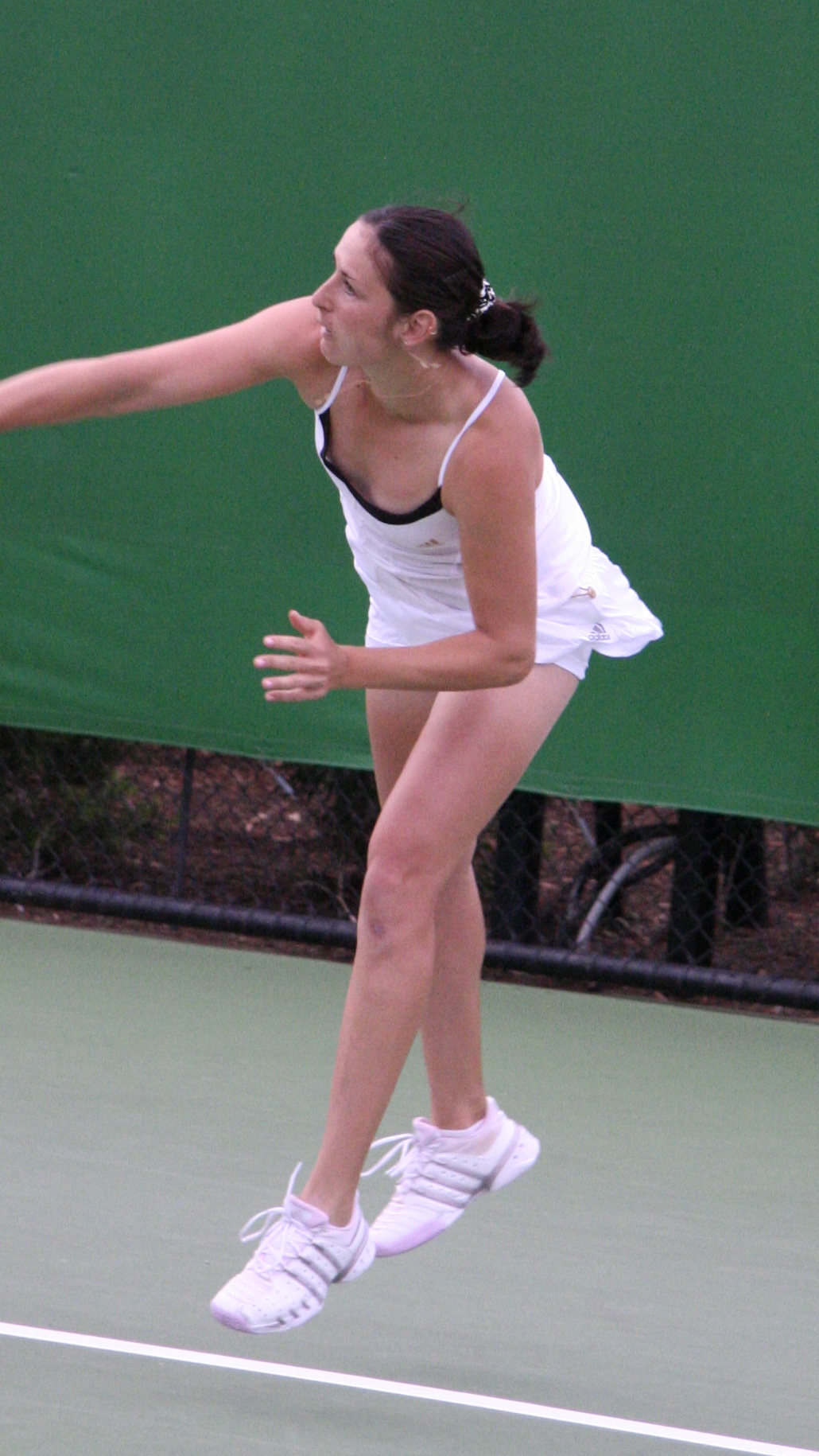 Yulia Beygelzimer at the 2007 Australian Open, during her first-round womens doubles match, partnering Lourdes Dominguez Lino.